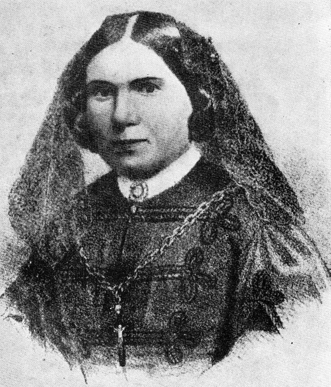 Seweryna Duchińska